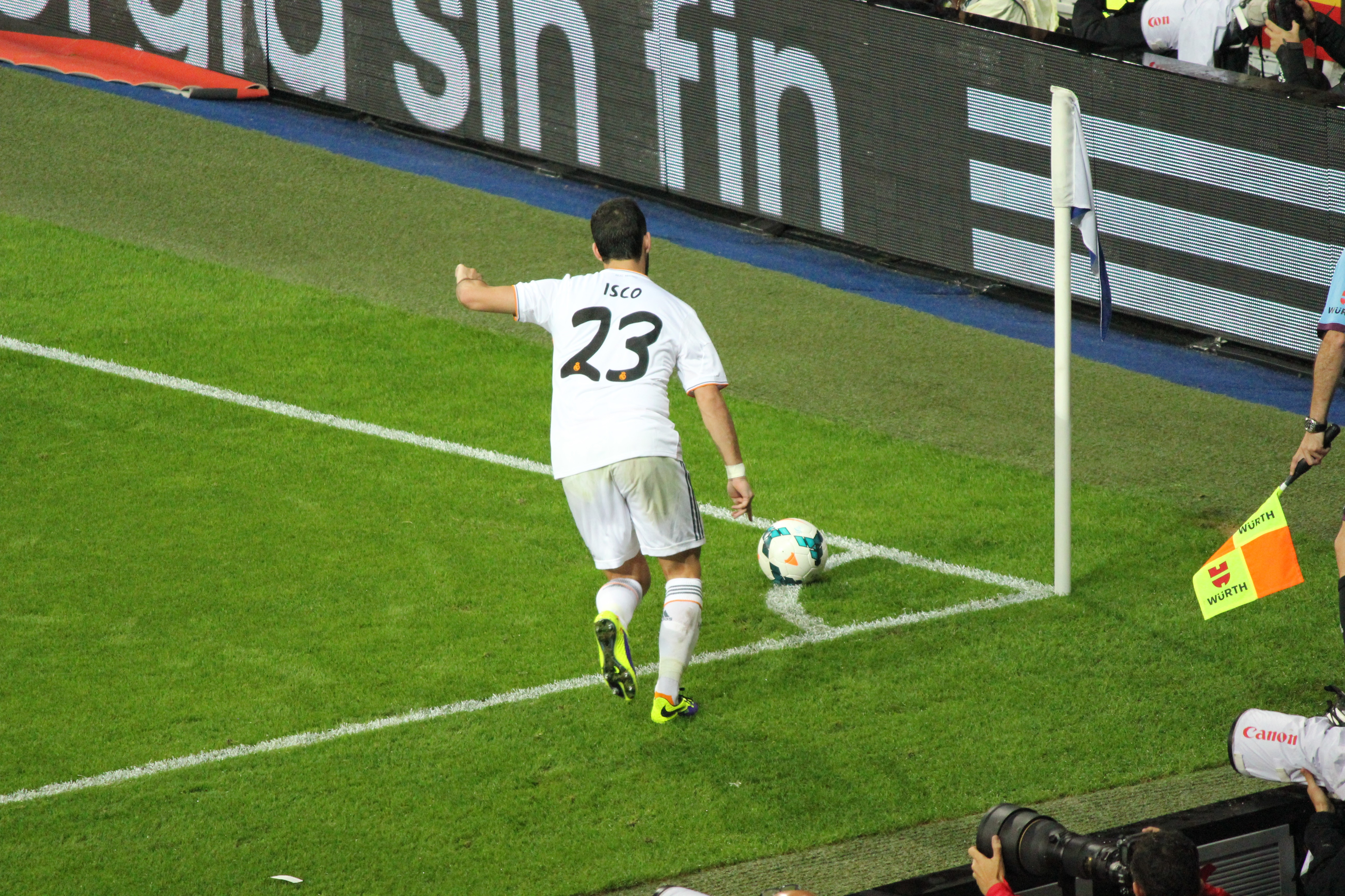 Isco playing for Real Madrid against Atlético Madrid on 28 September 2012 at a home game for Real Madrid.